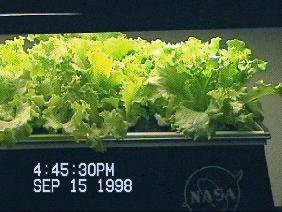 Aeroponic lettuce, Day 12